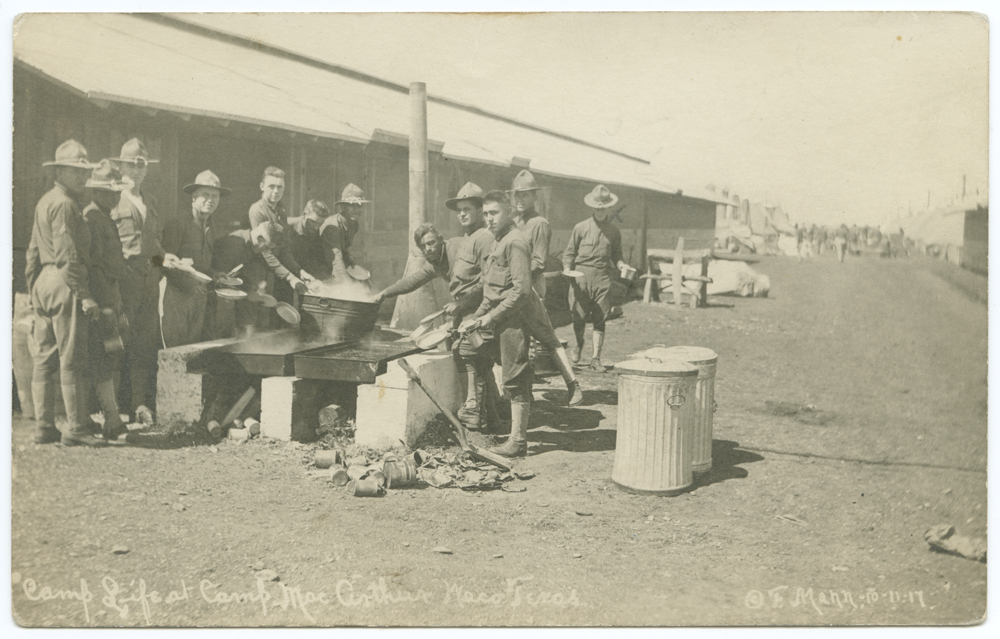 Title: Camp Life at Camp MacArthur, Waco, Texas Creator: F. Mann Date: October 11, 1917 Part Of: American border troops and the Mexican Revolution Place: Waco, Texas Physical Description: 1 photographic print (postcard): gelatin silver File: ag1982_0015_070c_camp.jpg Rights: Please cite DeGolyer Library, Southern Methodist University when using this file. A high-resolution version of this file may be obtained for a fee. For details see the web page. For other information, . For more information and to view the image in high resolution, see: View the Texas: Photographs, Manuscripts, and Imprints Collection